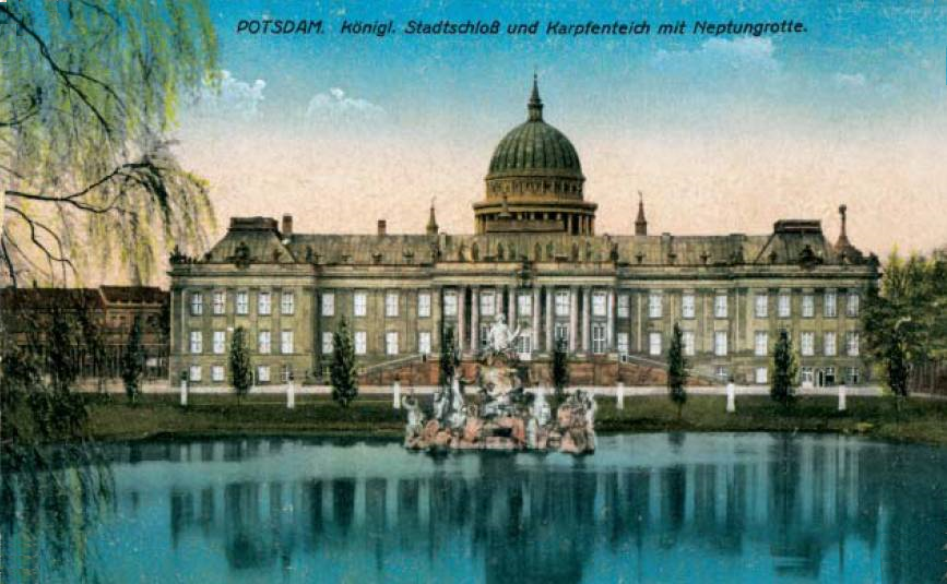 Potsdam, Stadtschloss und Karpfenteich mit Neptunbrunnen bestehend aus Meeresgott Neptun mit seiner Frau der Meeresgöttin Thetis (oder Amphitrite genannt) und blasenden Tritonen